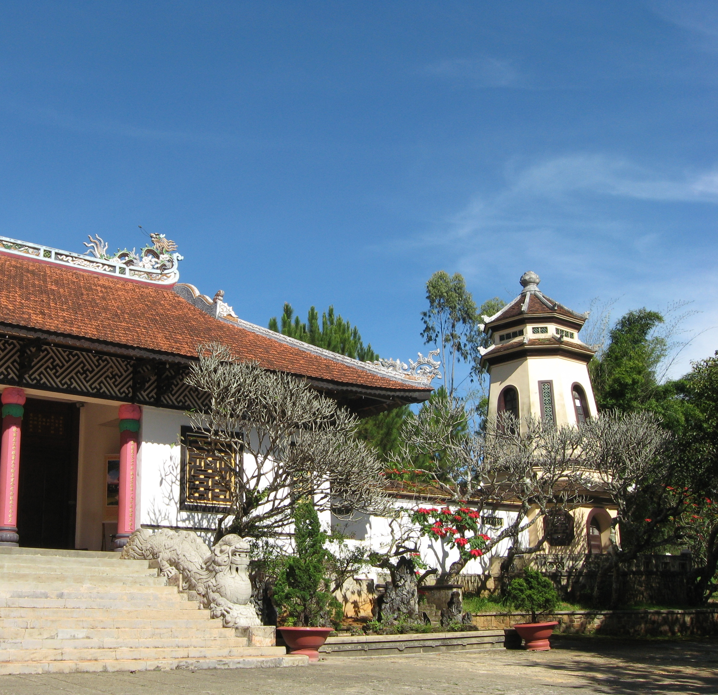 Linh Son Pagoda, Da Lat